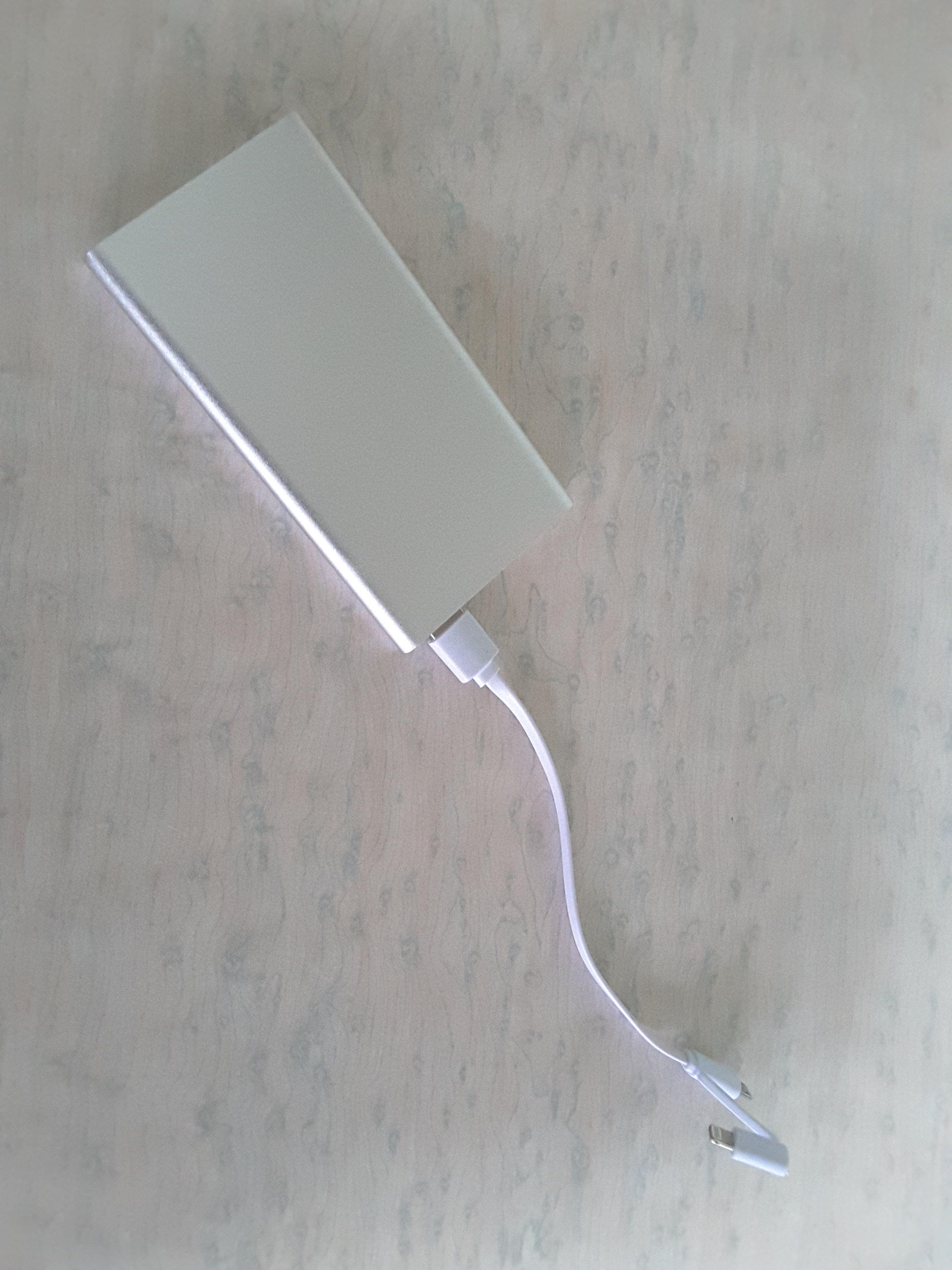 Power bank with USB and micro usb connectors.